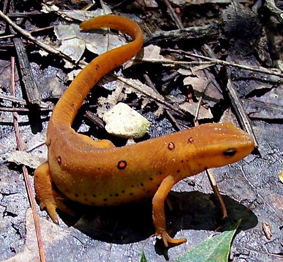 Eastern newt red eft (Notophthalmus viridescens)